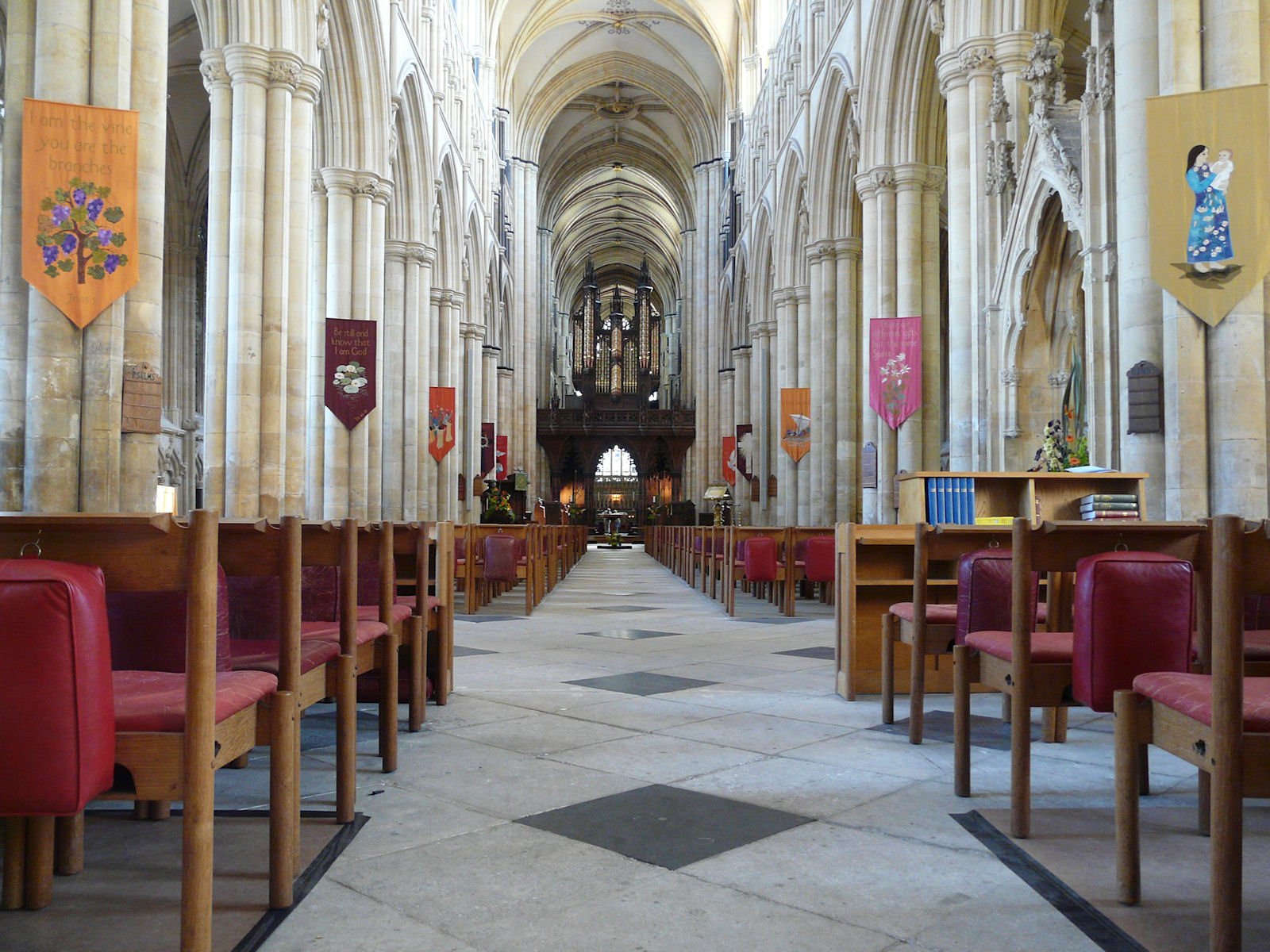 Beverley Minster, Beverley, East Riding of Yorkshire, England